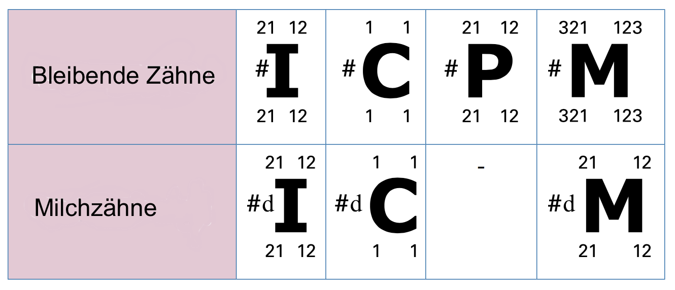 Dental charting system